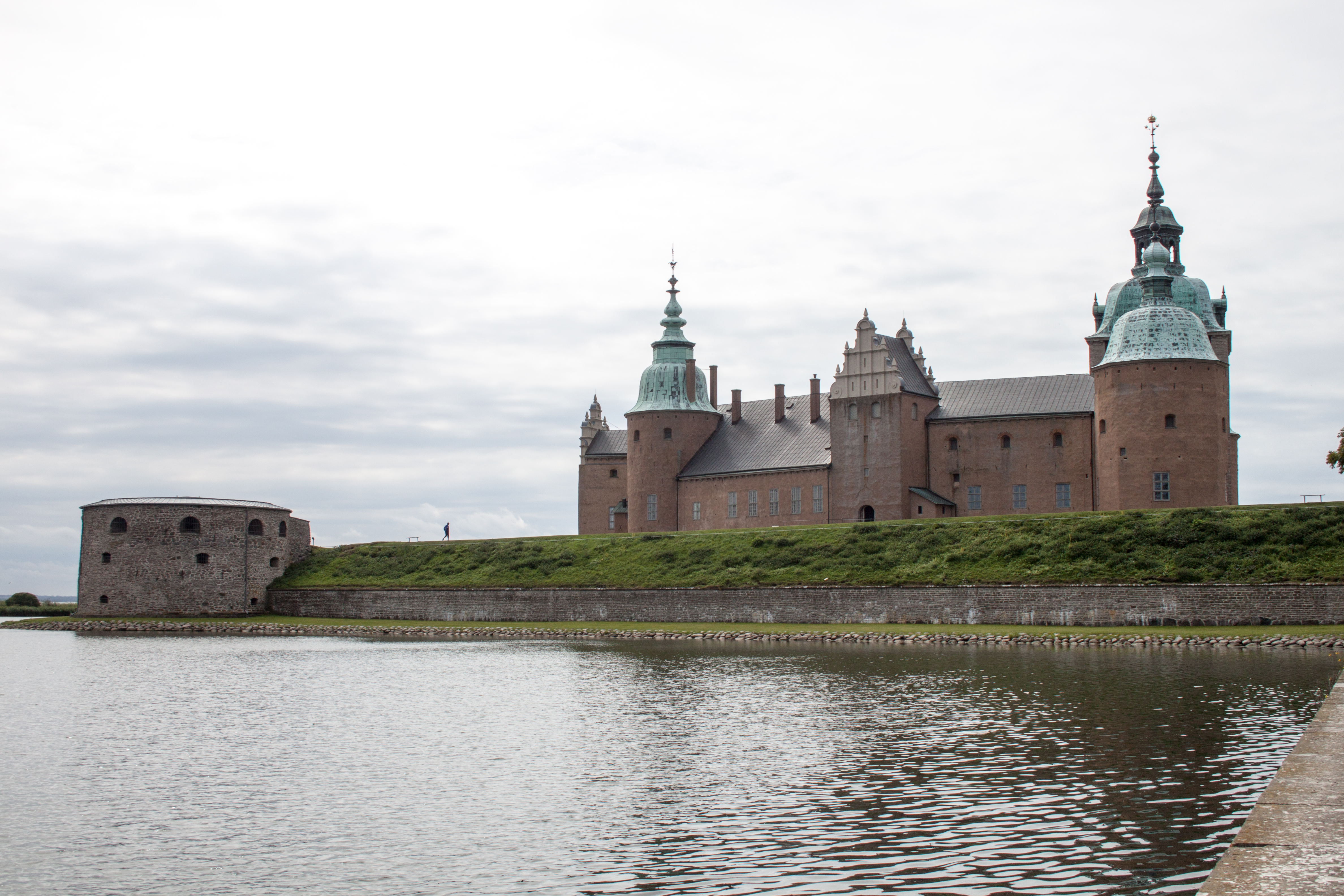 View of Kalmar Castle from north, with the eastern bastion